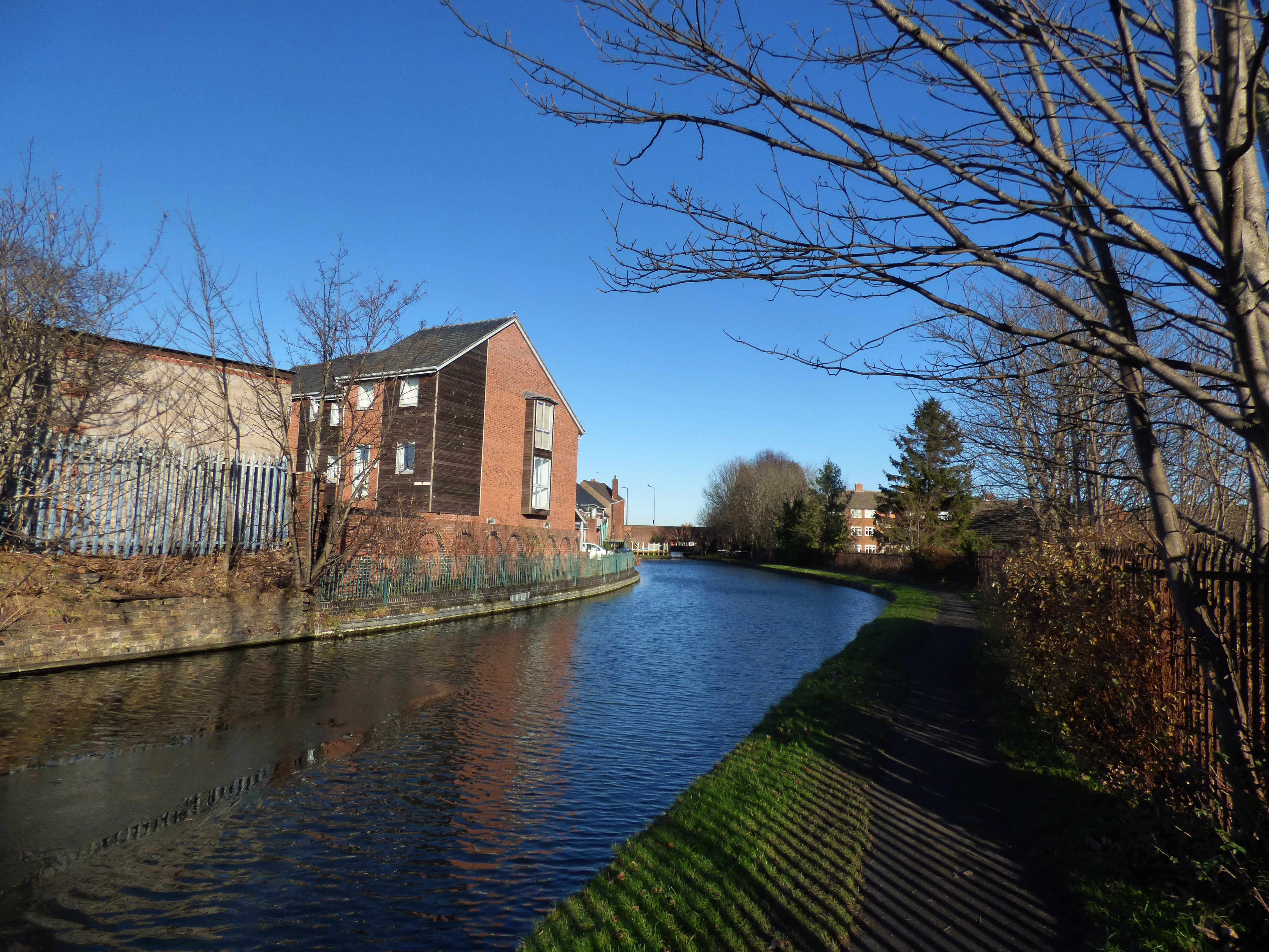 I got onto the Birmingham Canal Navigations Old Main Line in Tipton at a bridge on Baker Street then walked as far as the Tipton Green Bridge. And then past Coronation Gardens to the Owen Street Bridge. It was a nice and sunny day but was very cold! From Tipton Junction to the Tipton Green Bridge. Modern homes on the left.